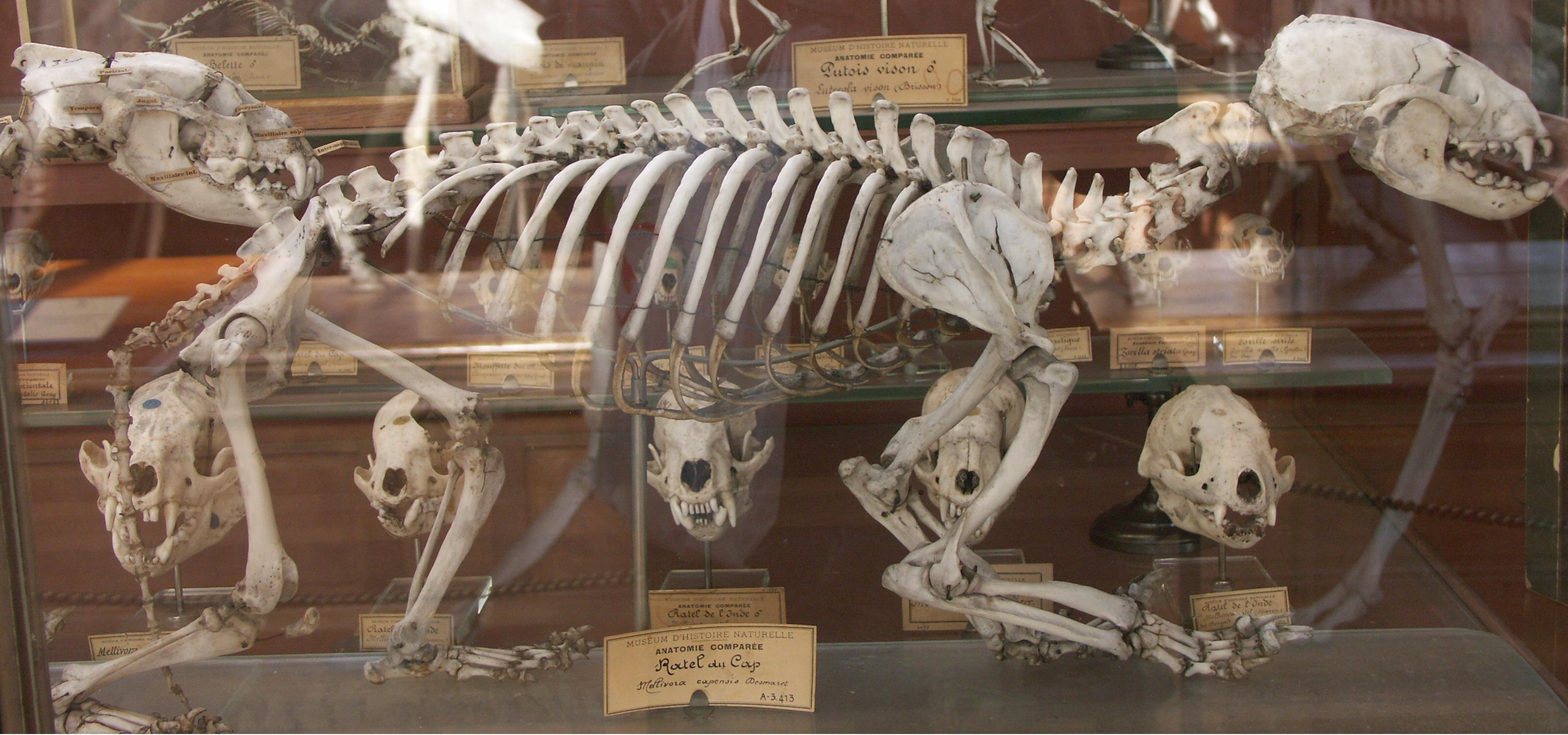 Skeleton of an Cape ratel, with some skulls of Indian ratels below, from the Muséum national d'histoire naturelle